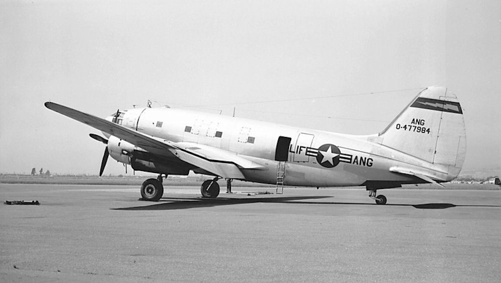 129th Air Resupply Squadron - Curtiss C-46D-15-CU Commando 44-77984